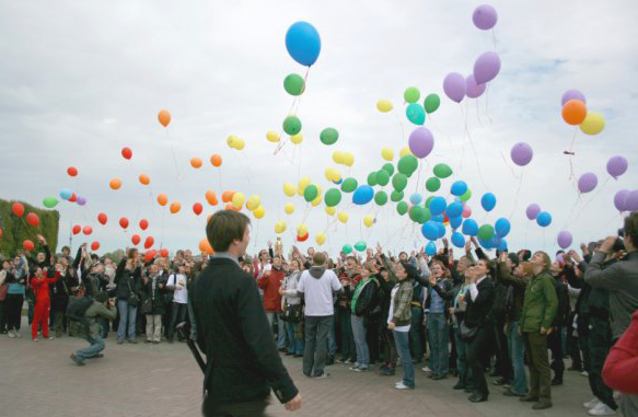 International Day Against Homophobia and Transphobia. RainbowFLASH